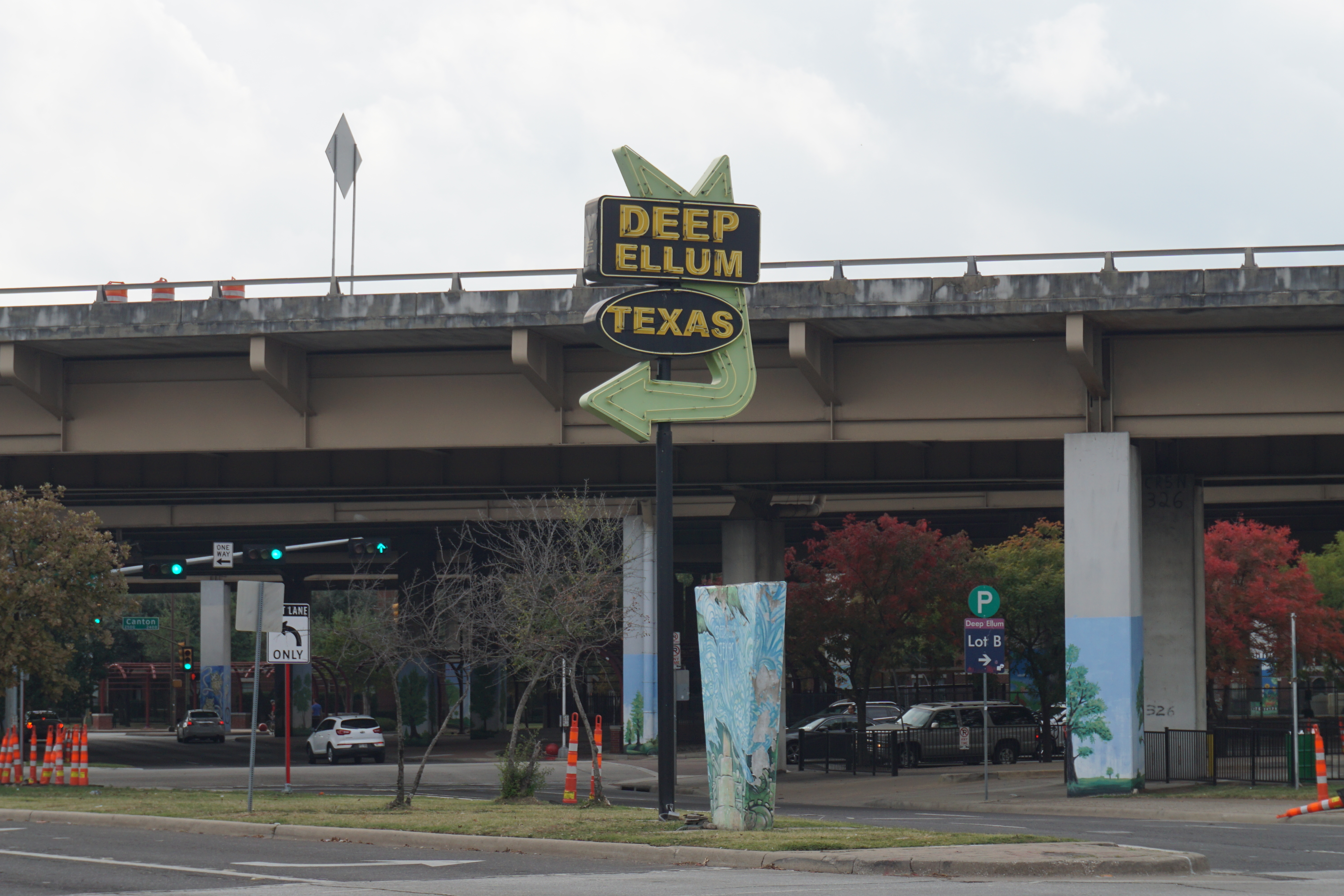 The Deep Ellum Neon Sign in the Deep Ellum neighborhood in Dallas, Texas (United States).